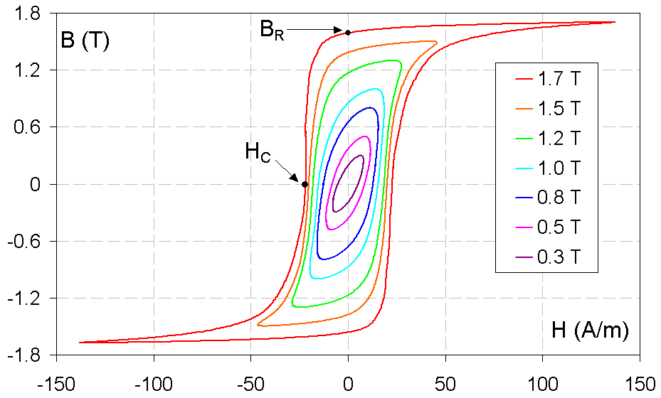 A family of B-H loops measured with a flux density that is sinusoidally modulated at 50 Hz with amplitude varying from 0.3 T to 1.7 T. The material is conventional grain-oriented electrical steel. BR denotes the remanence and HC is the coercive field. The B-H loop is another name for hysteresis loop.